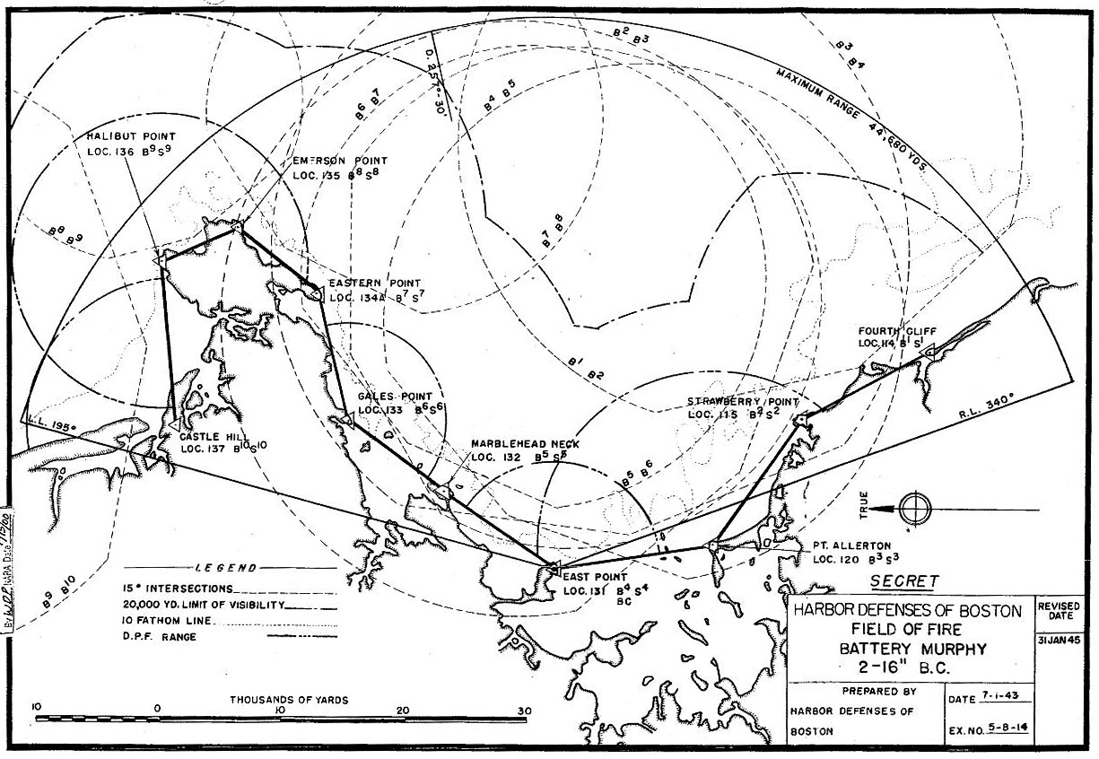 This map, from the U.S. Army Engineers' 1945 Annex to the Report on the Harbor Defenses of Boston, locates the 10 fire control towers and cottages that made up the network of base end and spotting stations for Battery Murphy, the twin 16-inch guns at East Point in Nahant, MA. Note that this map is oriented with east at the top of the page, looking seaward. The range of the battery was about 25 mi. and the distance between fire control stations Number 1 and Number 10 was about 40 mi.